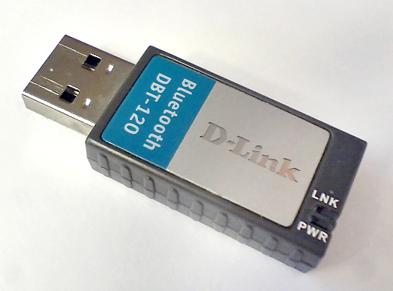 USB-Bluetooth, D-Link DBT-120